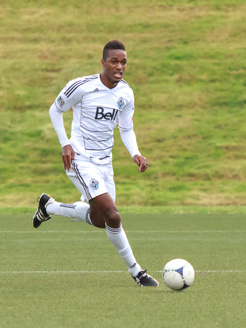 Atiba Harris, Vancouver Whitecaps FC Reserves v CD Chivas USA Reserves, 23 July 2012